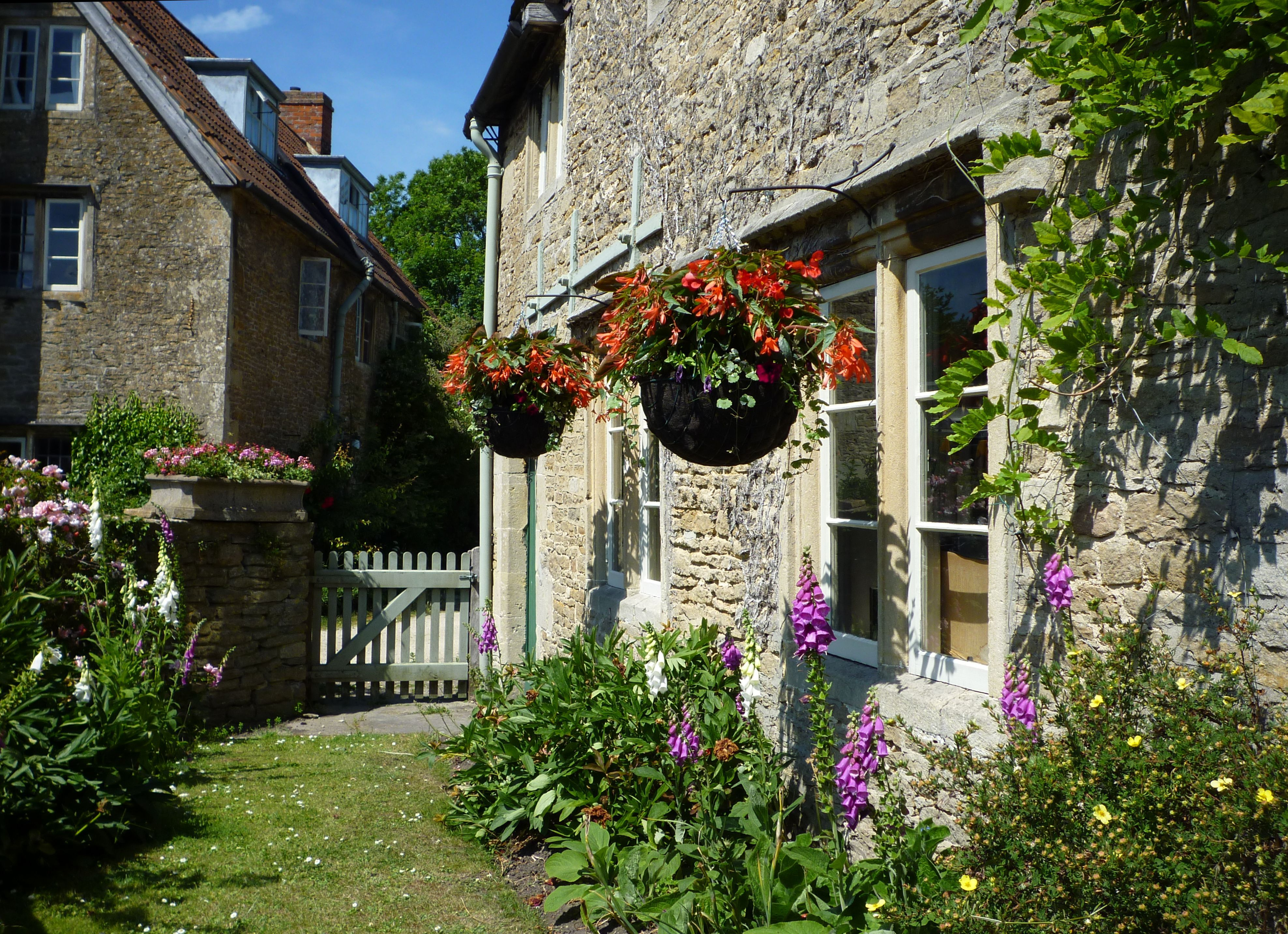 Lacock -Picturesque architecture 13-18.Cent.front garden.jpg